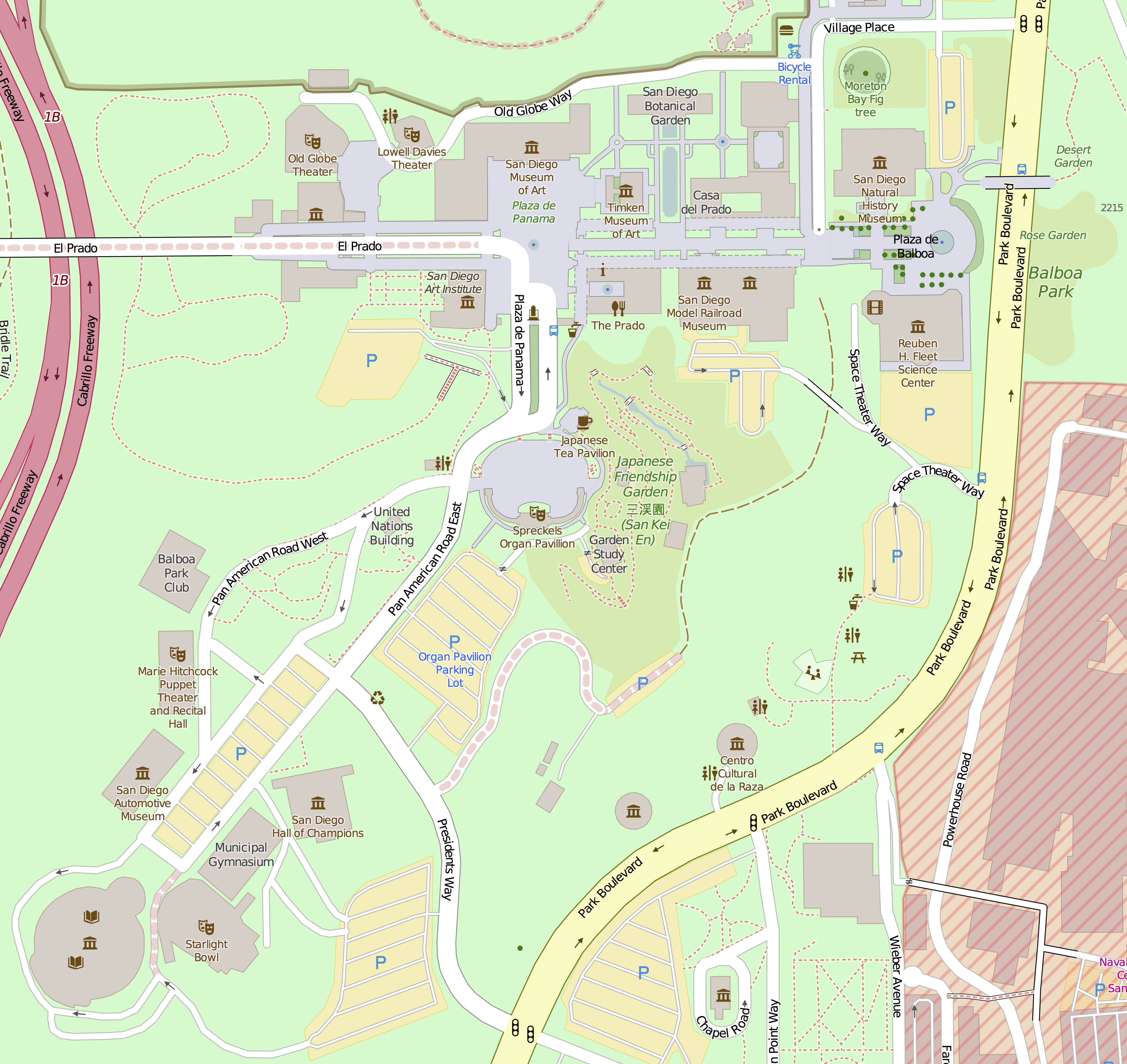 Balboa Park, San Diego, California. Full map of cultural institutions.